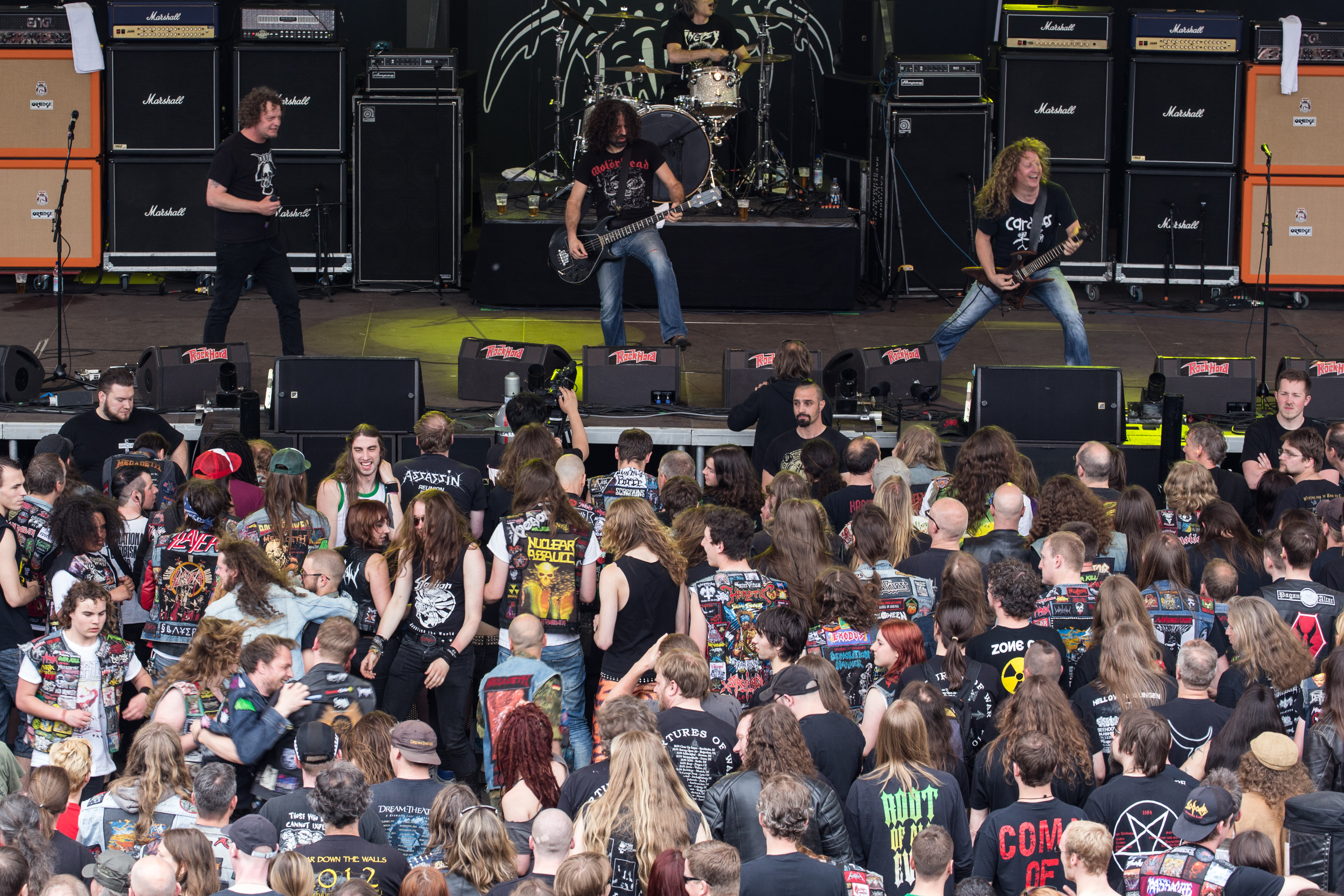 Voivod performing live at Rock Hard Festival, May 2015, Gelsenkirchen